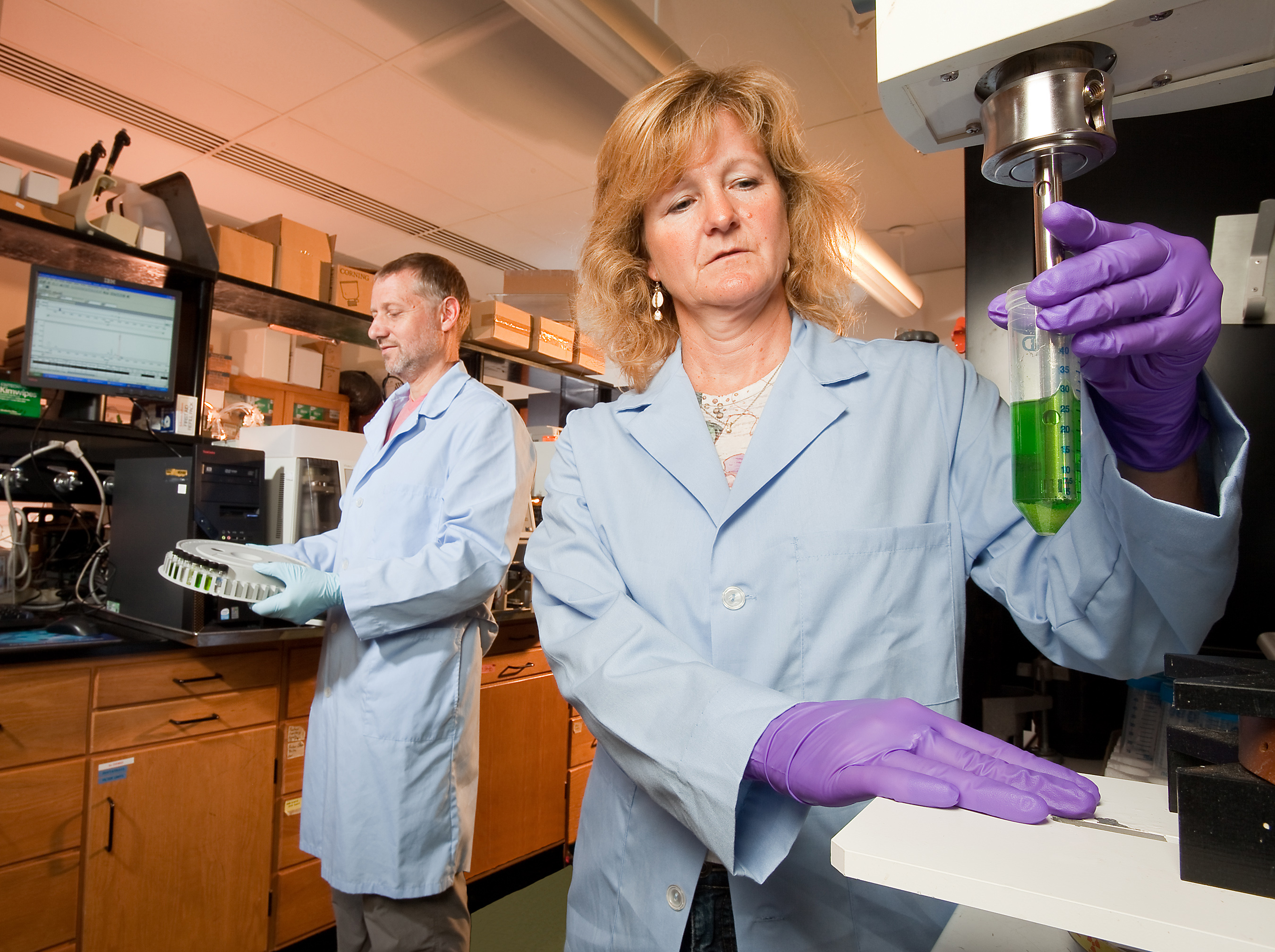 At the ARS Natural Products Utilization Research Unit in Oxford, MS., support scientist Susan Watson (r) extracts pigments from a plant sample that will be analyzed by plant physiologist, Franck Dayan (l) using an HPLC system.